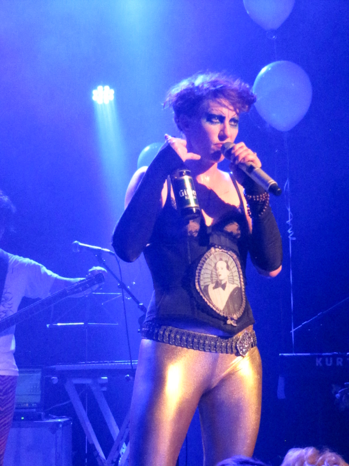 Amanda Palmer, equipped with German beer, during an announcement. Gloria, Cologne, 2013-11-01 Some snapshots from Amanda Palmer's show at the Gloria Theatre in Cologne, 2013-11-01